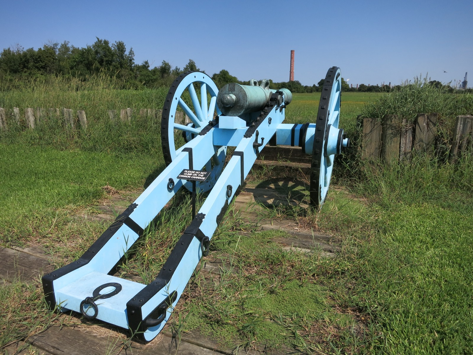 Photo shows a French cannon at the Chalmette National Battlefield in New Orleans, Louisiana. The piece is located at Battery 6 in the American defensive line. The breech inscription is "Arsenal de Paris" making the manufacture unquestionably French. The park ranger wrote in an email that it was a 9-pounder, but French field pieces were manufactured in 4-, 8- and 12-pound types. Both British 9-pounders and French 8-pounders have a ball of 4 inches (100 mm) diameter, making them essentially equivalent. Probably a French 8-pounder, but will request change to "NOLA French medium cannon.JPG" to play safe.